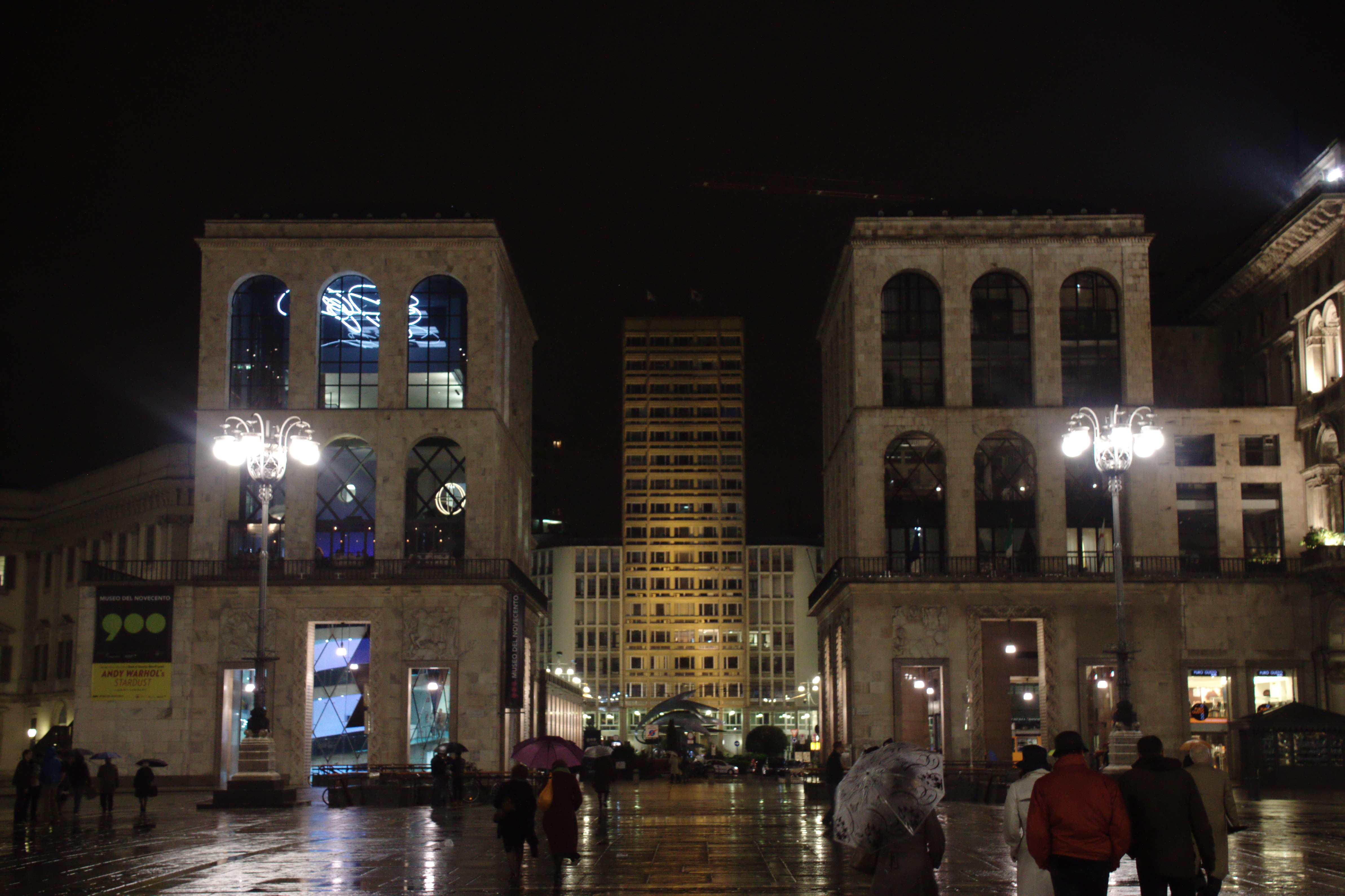 Night view of the Piazza del Duomo Square, Milan, Italy